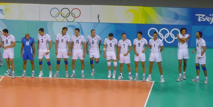 The Italian volleyball team at the 2008 Summer Olympics just before the match against the United States in the group states. From the left: Cordano, Corsano, Gavotto, Zlatanov, Birarelli, Meoni, Vermiglio, Paparoni, Martino, Mastrangelo, Fei, Bovolenta